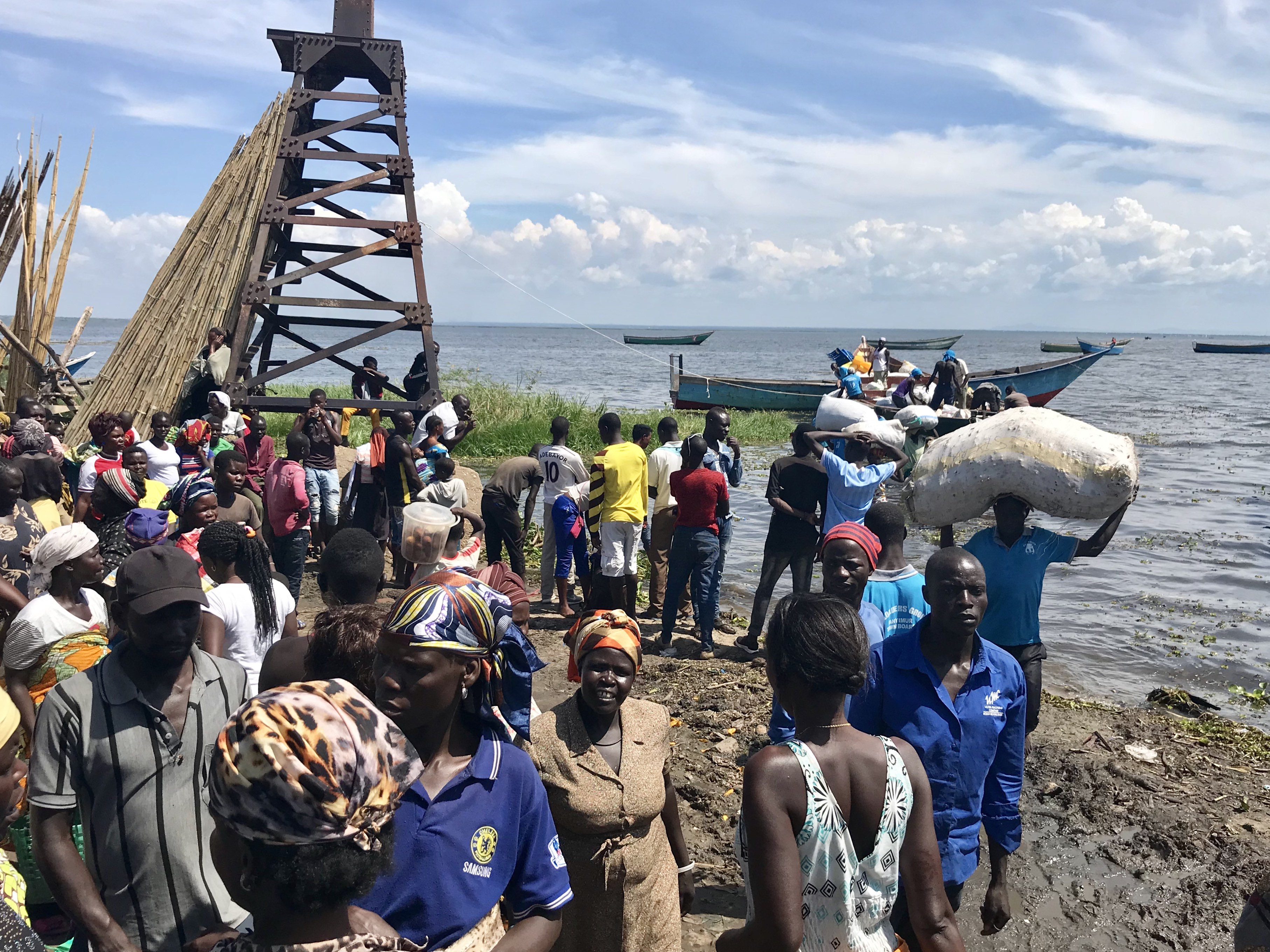 Men carry fish and other cargo off the boats that have landed at panyimur landing site in Nebbi district Uganda This is an image with the theme "Africa on the Move or Transport" from: Uganda